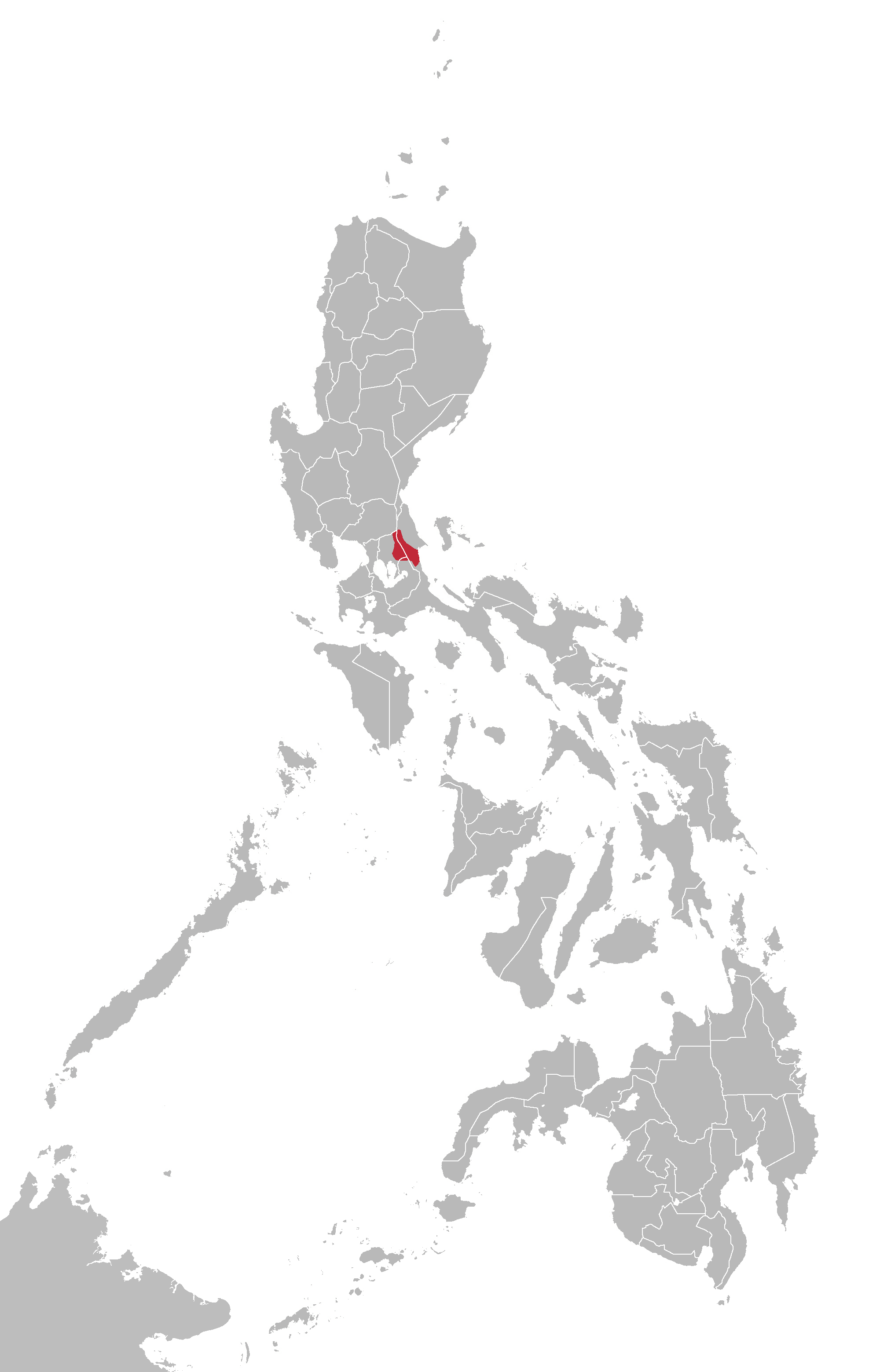 Language map of the Remontado Dumagat (Sinauna) languageTagalog: Mapa ng wika ng wikang Remontado Dumagat (Sinauna)